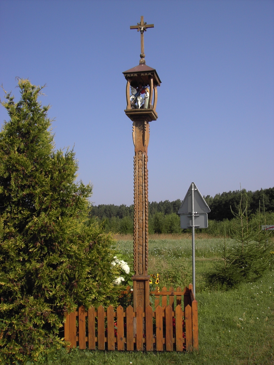 Wayside shrine of St. George in Meironys, Ignalina district, Lithuania